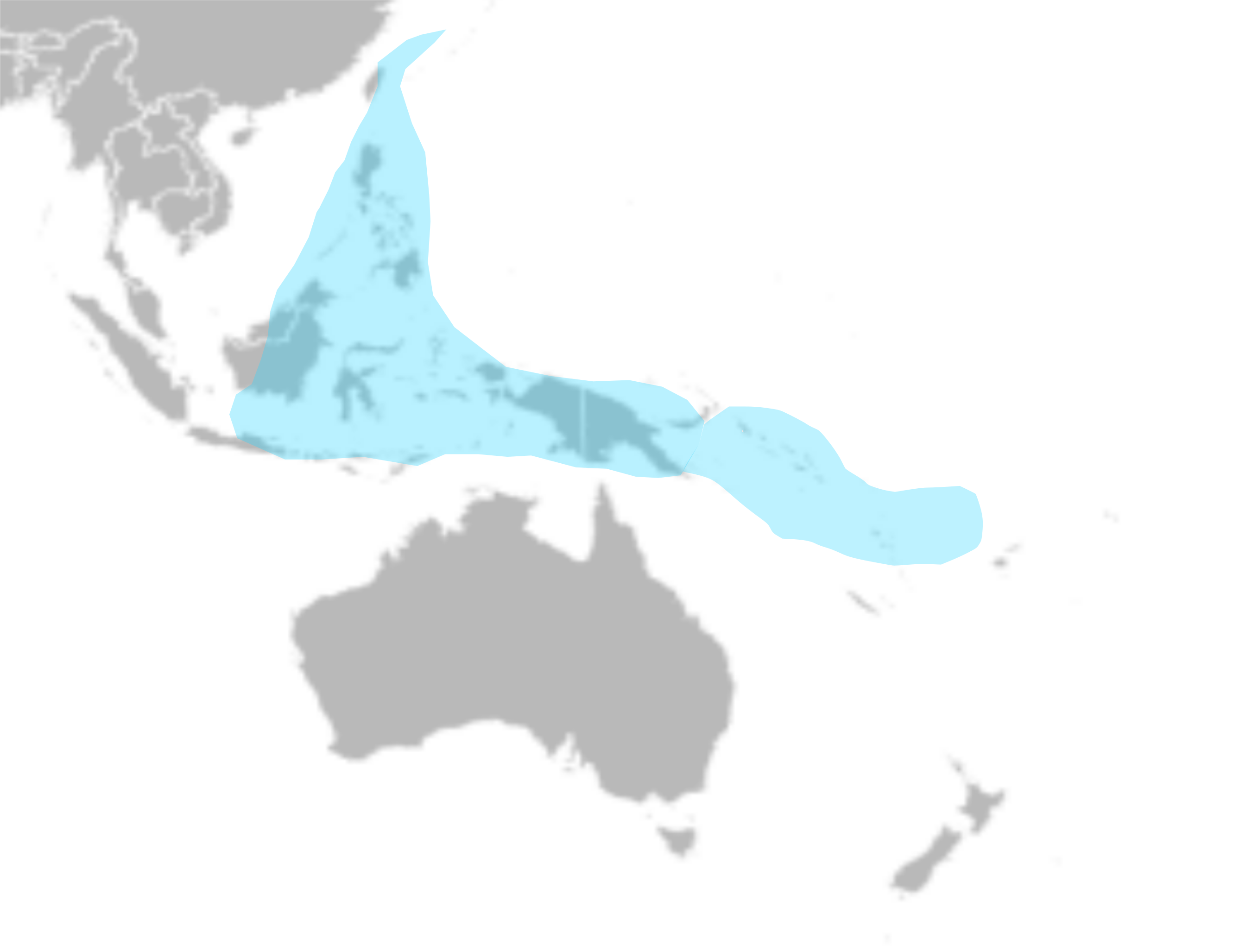 A distribution map for the sea slug species Chromodoris willani. Original blank SVG map by author Lokal_Profil Made with Inkscape